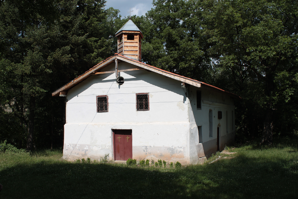 Saint Trinity monastery church in Banya